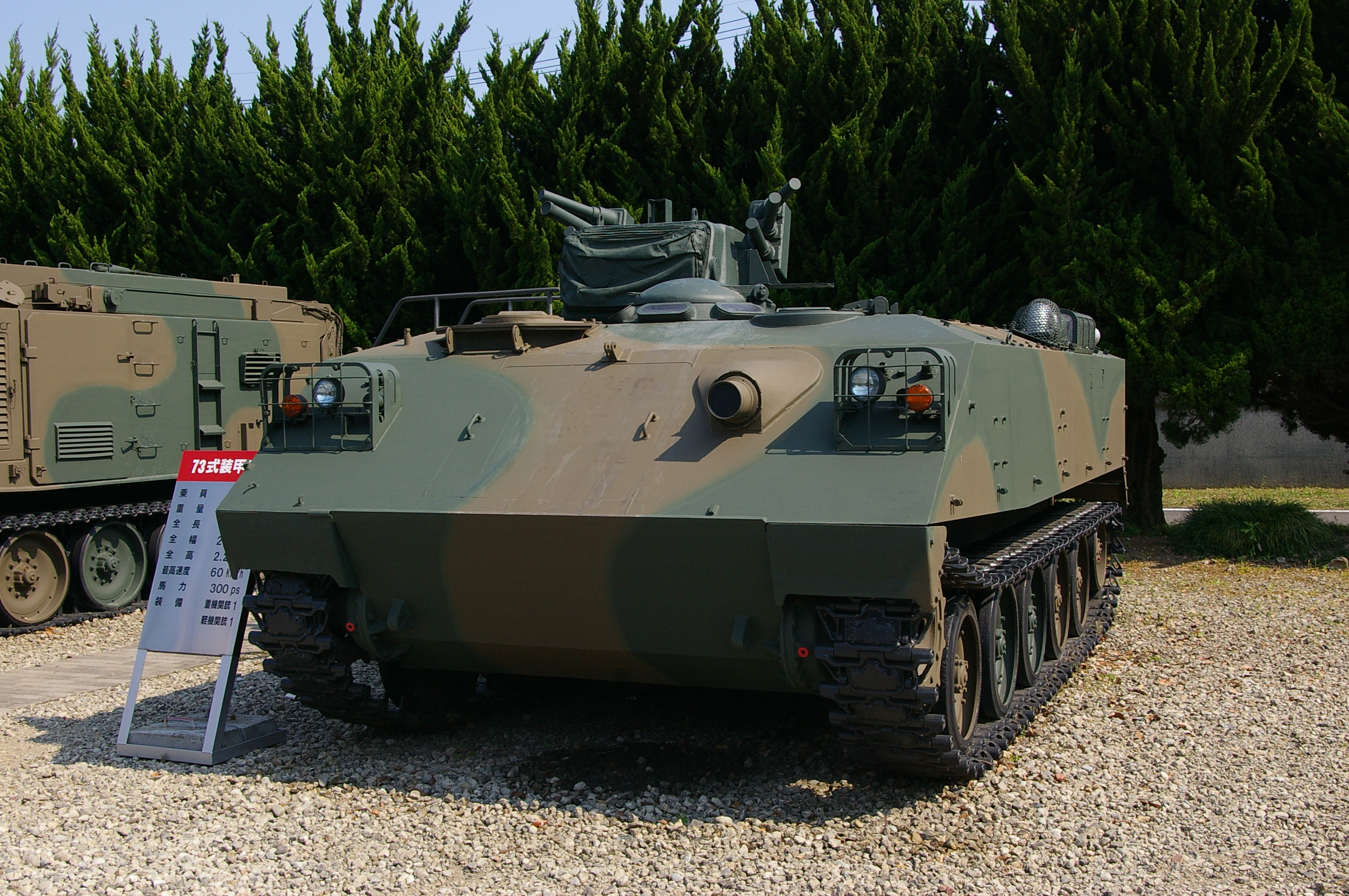 Taken by los688,18-May-2008,JGSDF Camp Kasumigaura.PD-self.JGSDF Type73 APC.